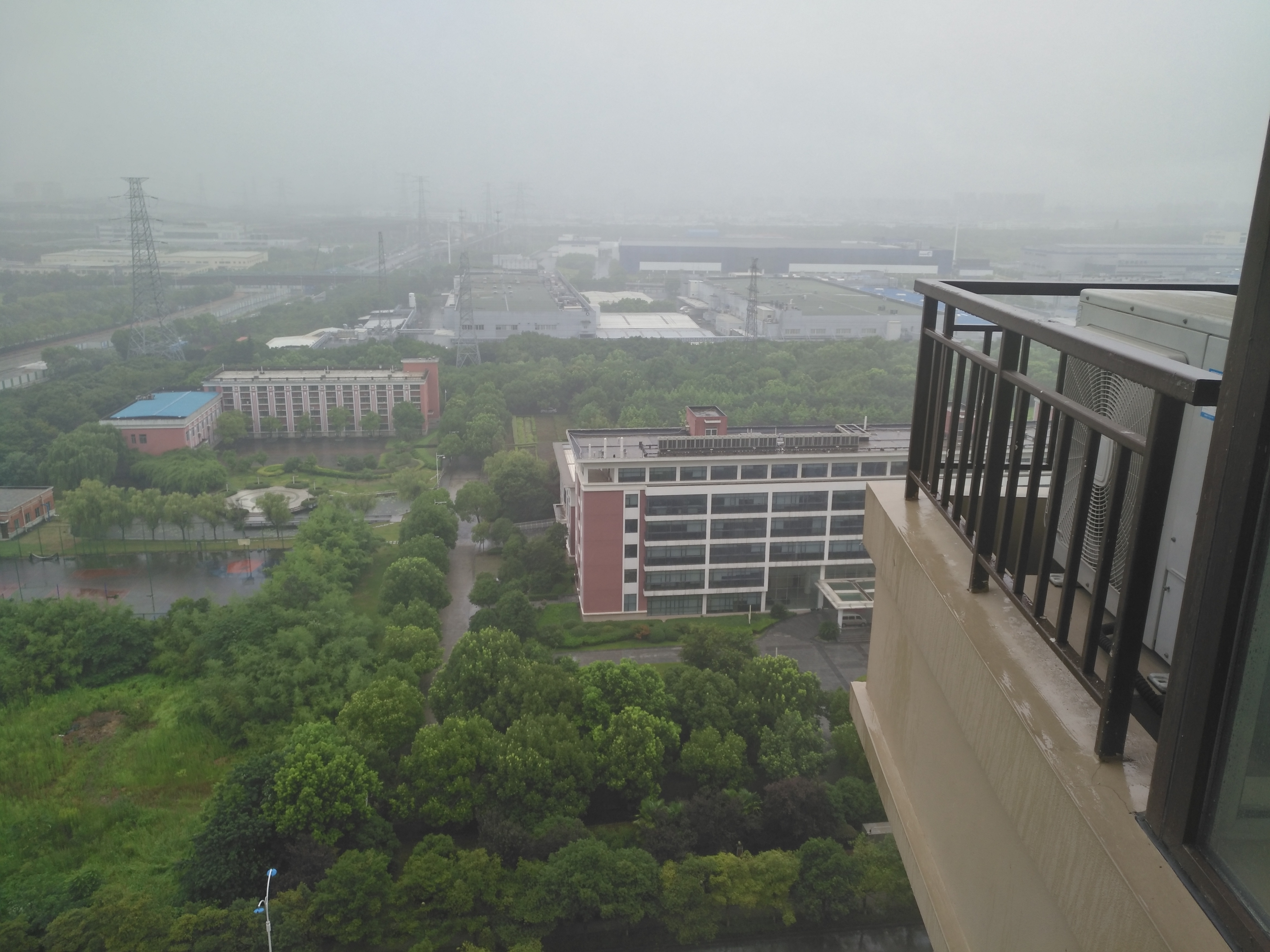 A view under the influence of Tropical Storm Ampil in Suzhou, China on July 22, 2018. It comes with strong breeze and rain.